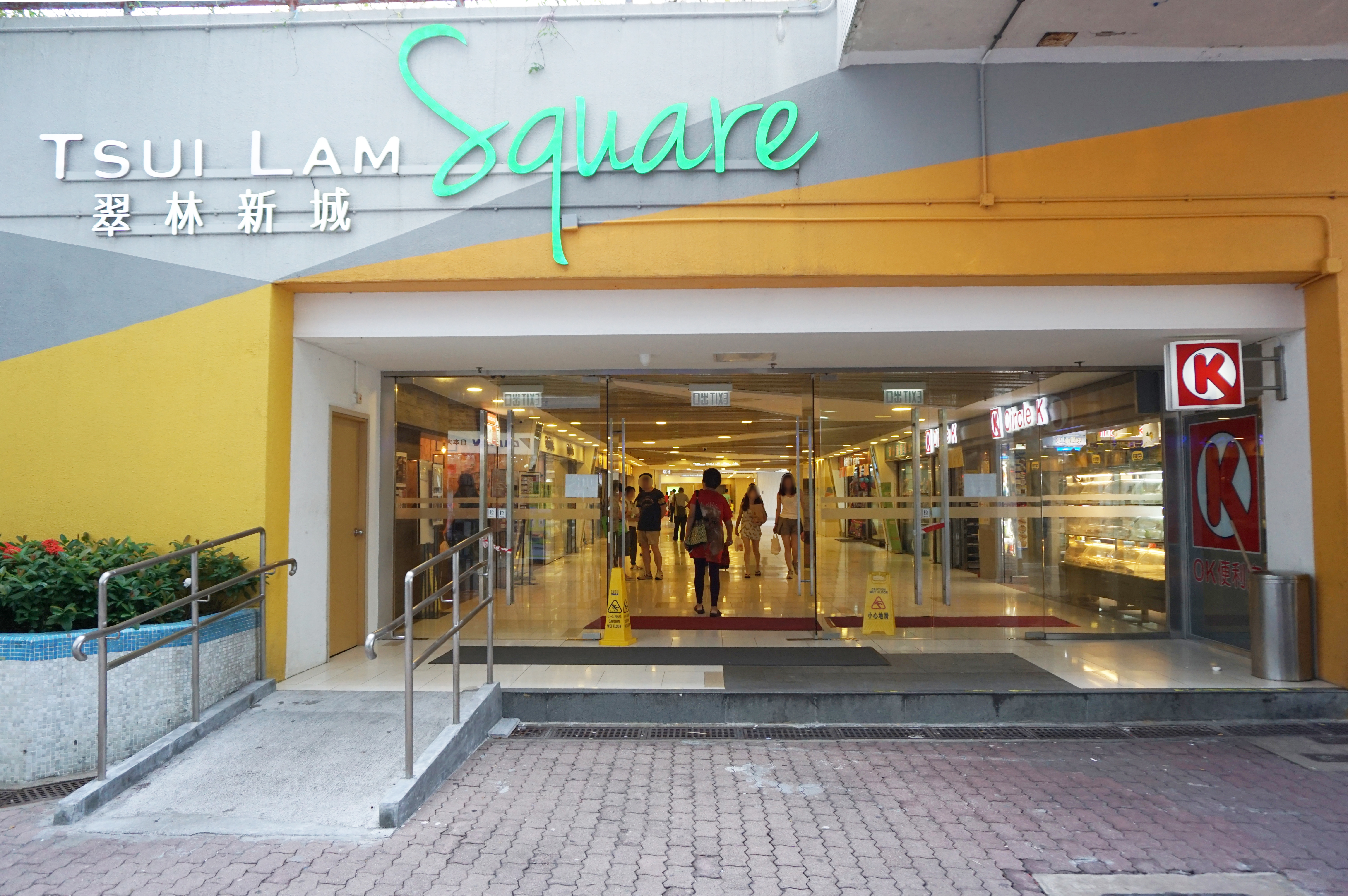 Tsui Lam Square in Tseung Kwan O, Hong Kong.